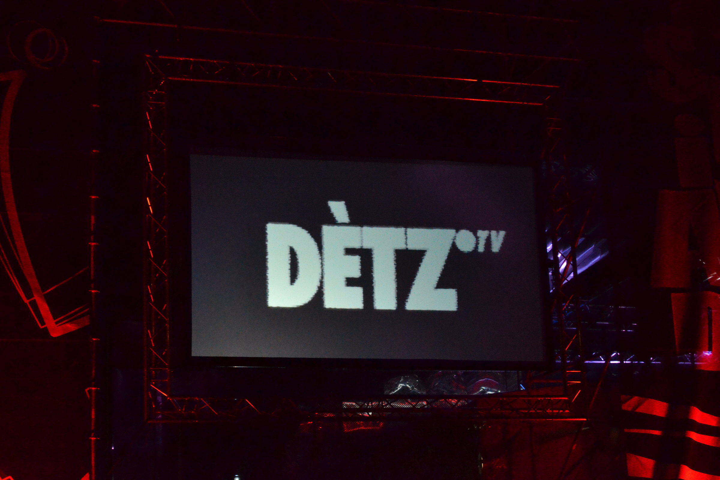 Dètz TV during Estivada 2015.